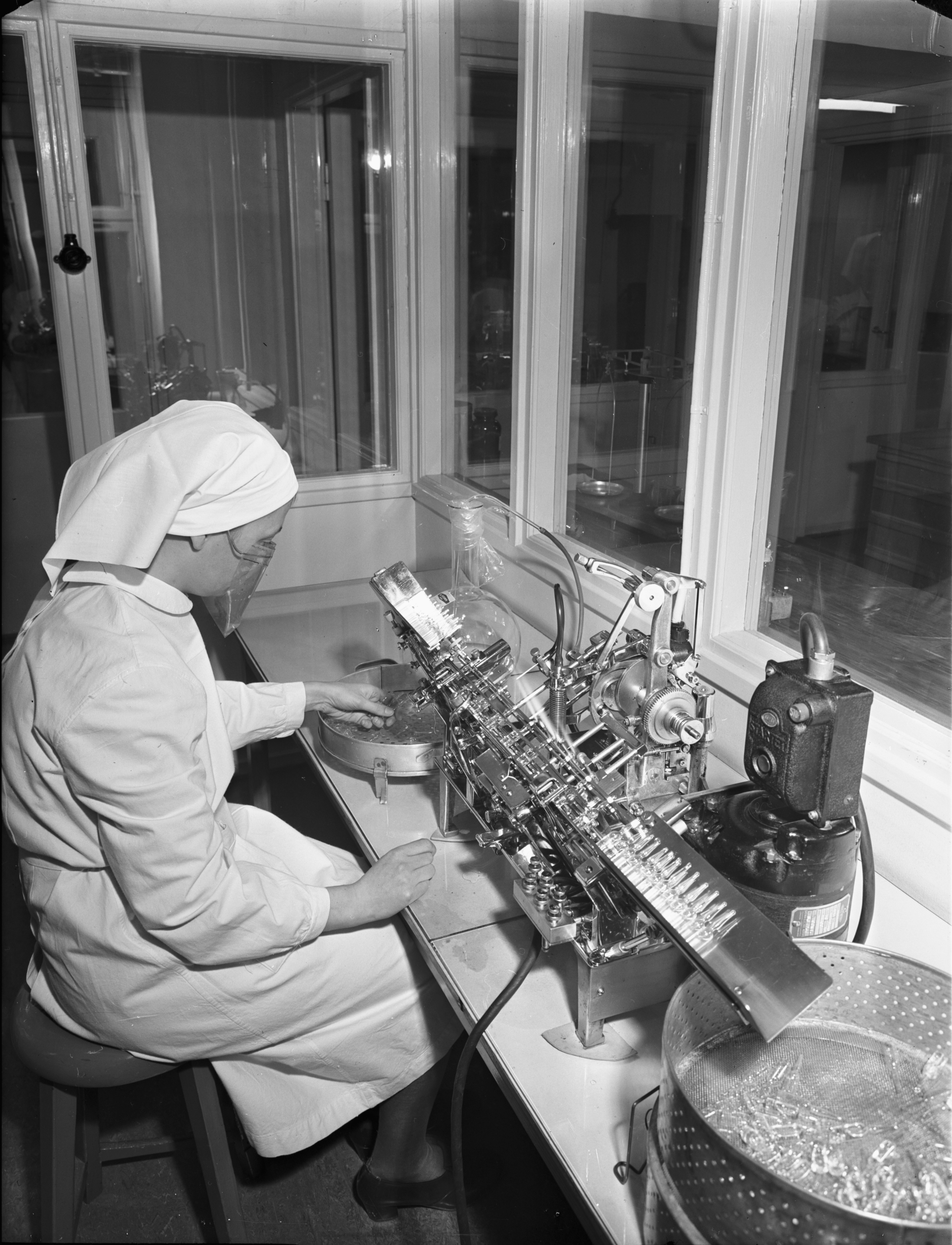 Packing the pills at the medicine factory Star. Photo by E. M. Staf, Vapriikki Photo Archives.